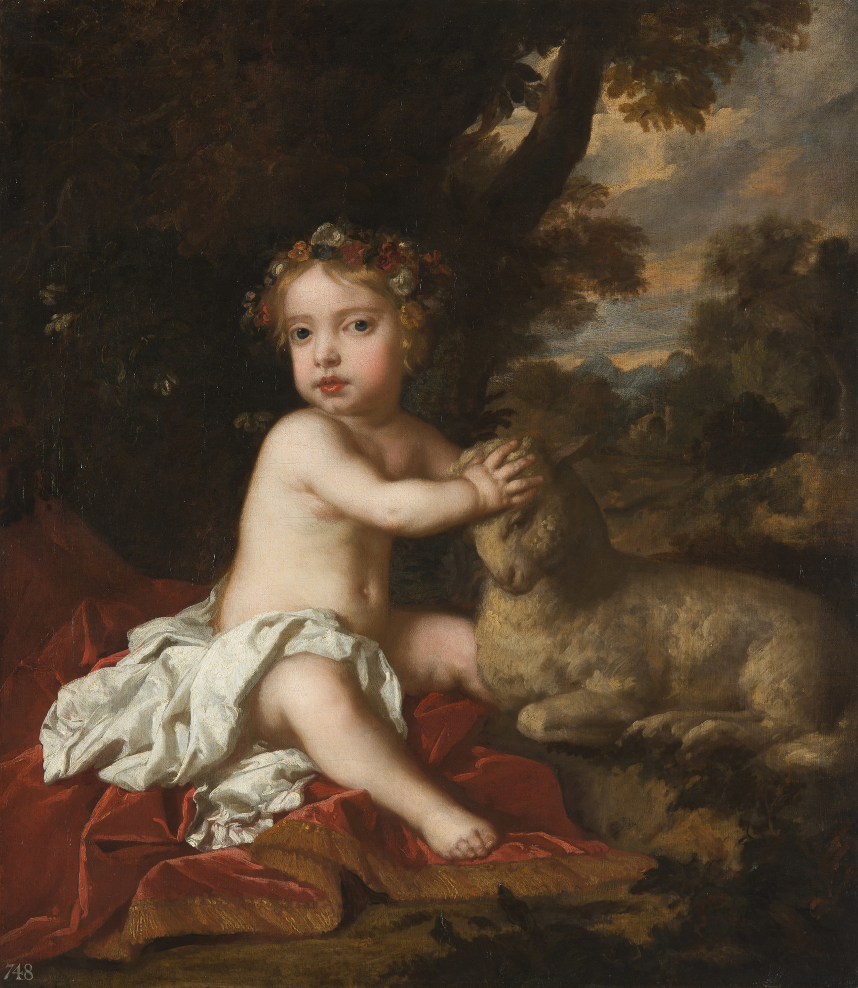 Princess Isabella, born on 28 August 1676, was the second eldest daughter of James, Duke of York (1685-1688) and his second wife, Mary of Modena. This portrait was probably painted in 1677 as it shows the Princess at around the age of one.